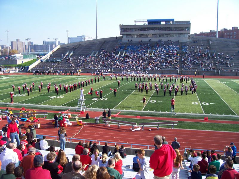 Picture of the Cornell Big Red Marching Band at Columbia University on November 11, 2006